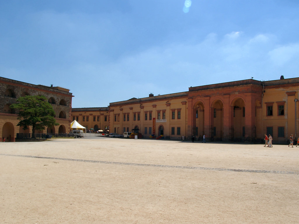 Festung Ehrenbreitstein in Koblenz